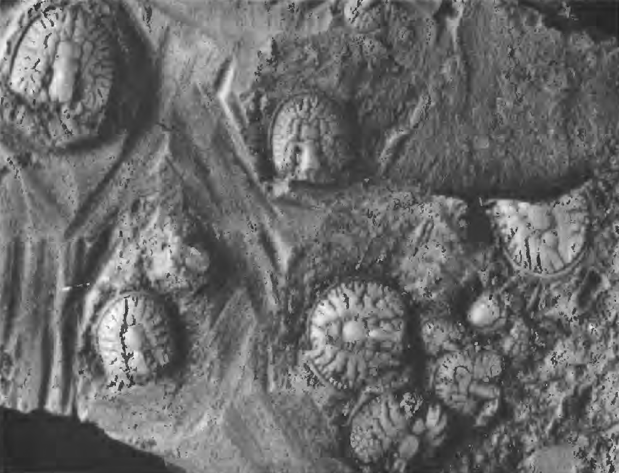 Glyptagnostus reticulatus angelini - Slab showing infra-specific variation, compare reticulation on cephala in upper half of pictures (Allison R. Palmer, 1962)